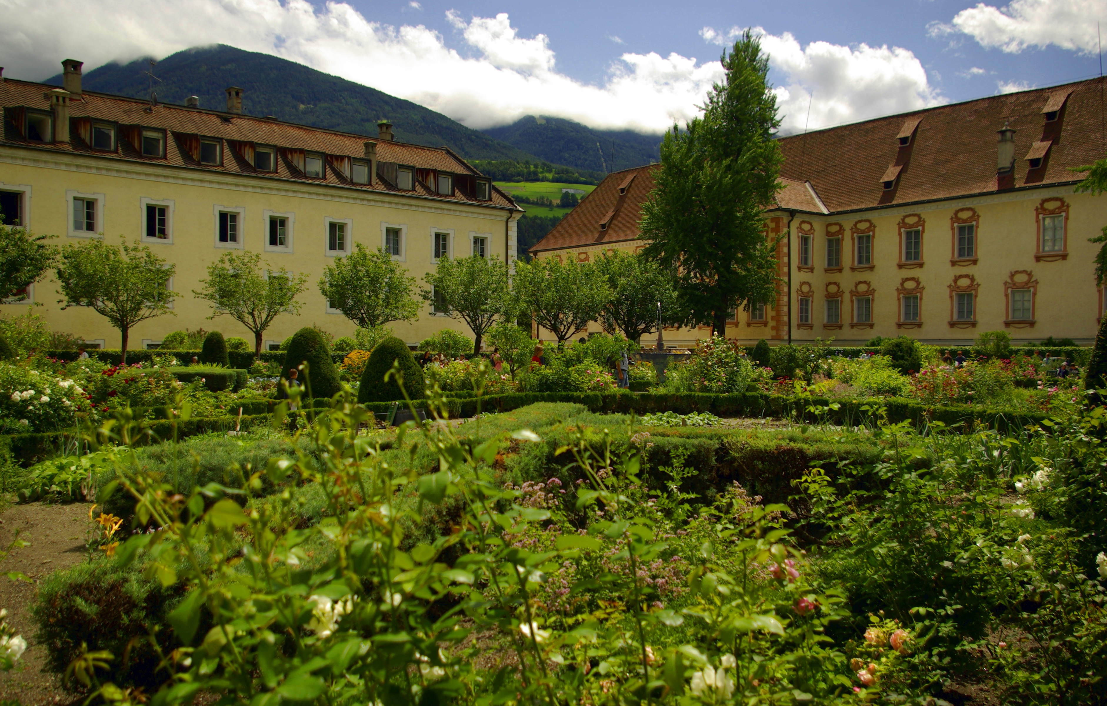 The park known as "Herrengarten" next to the Hofburg in Brixen (South Tyrol, Italy)